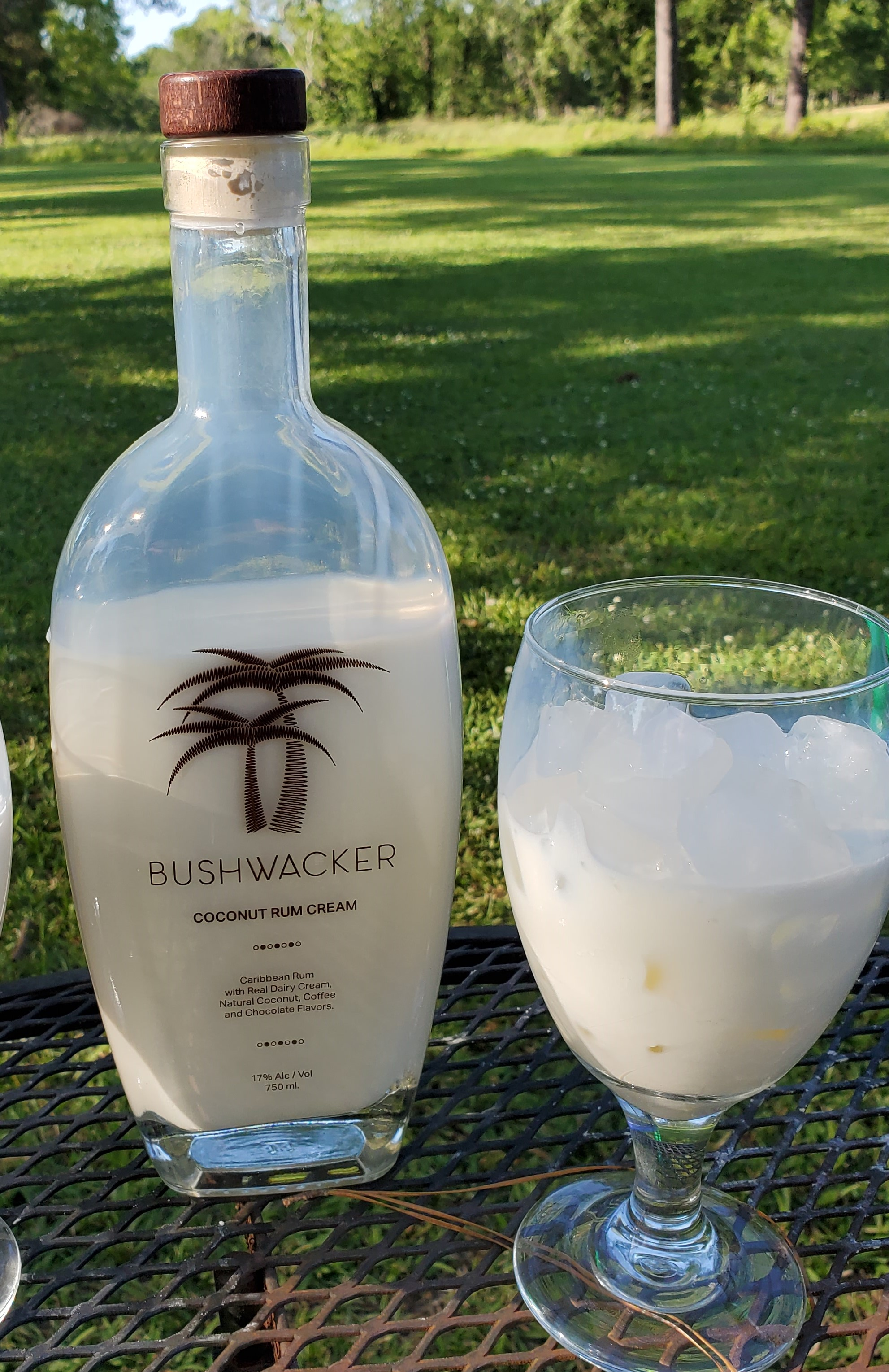 Bushwacker Coconut Rum Cream in a glass.